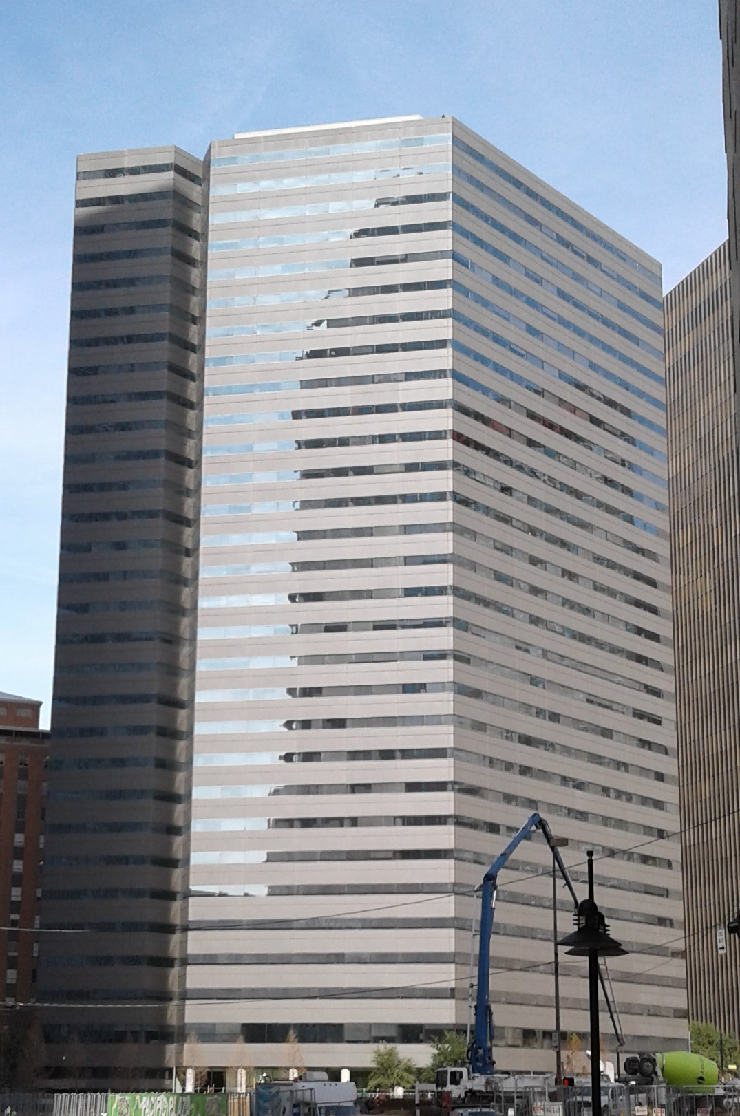 South facade of One Dallas Center building in Dallas